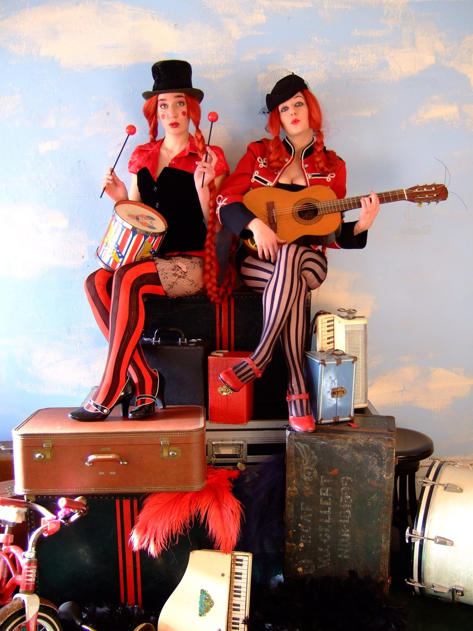 Vermillion Lies photo used for promo all over the U.S., and also for the Vermillion's travels in Portugal, Russia, and Belgium.